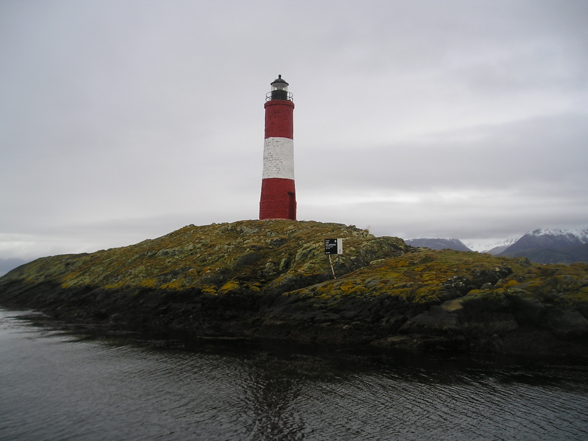 Les Éclaireurs lighthouse in the Beagle Channel, near Ushuaia, Argentinian Tierra del Fuego. the lighthouse is fomous from a novel of Jules Verne.